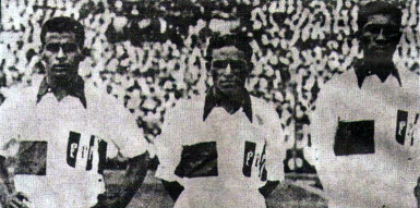 Jorge Alcalde, Teodoro Fernandez, and Alejandro Villanueva, the three strikers of the famed Rodillo Negro of Peruvian football.